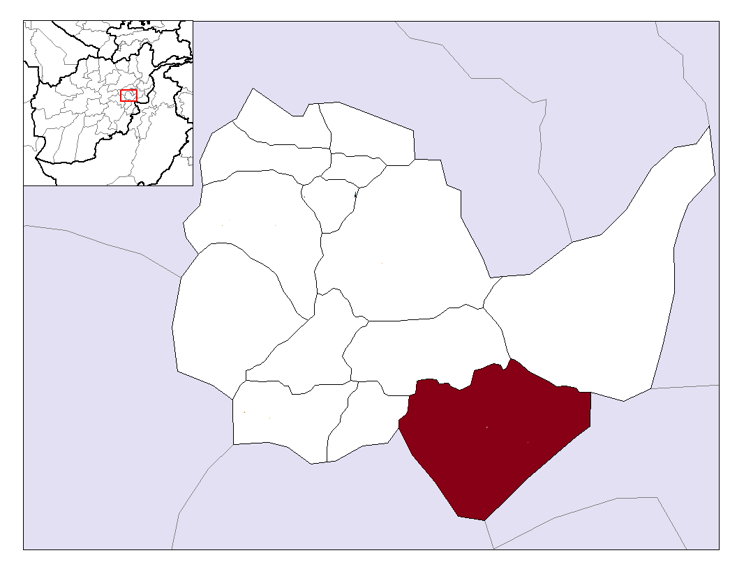 District locator in Kabul Province